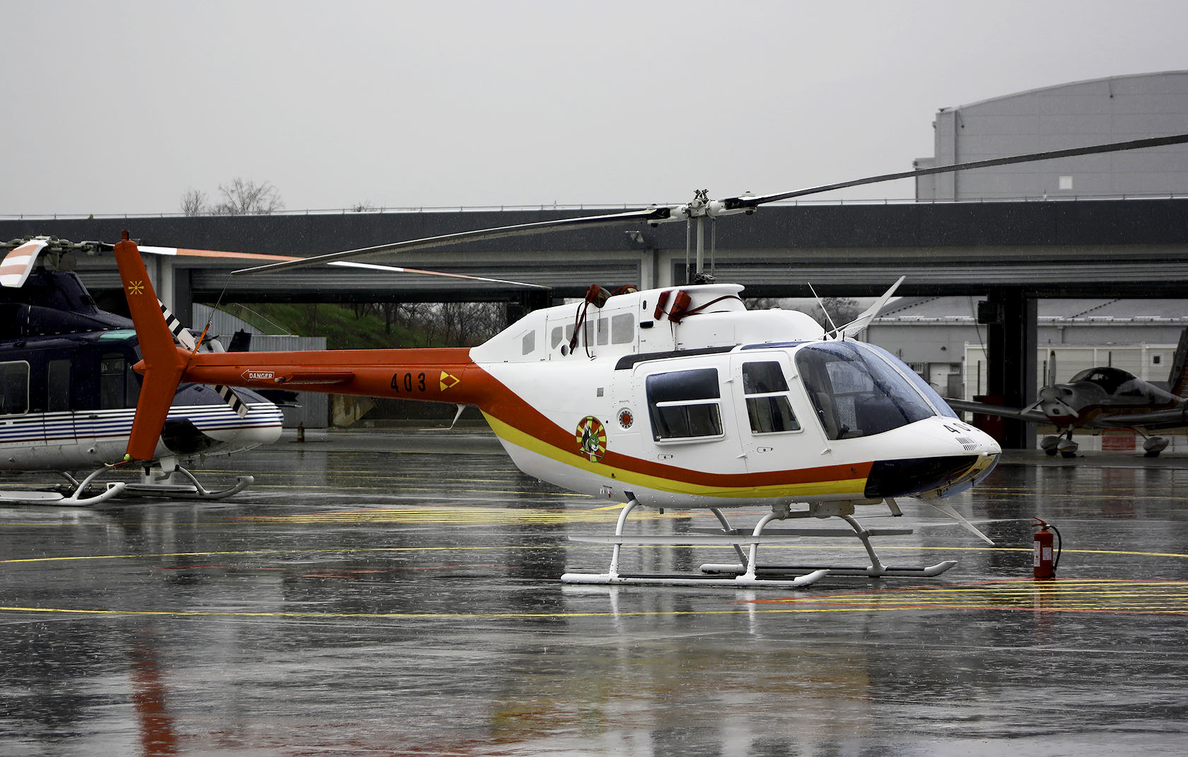 Macedonian Air Force Pilots training center Bell-206 Jetranger